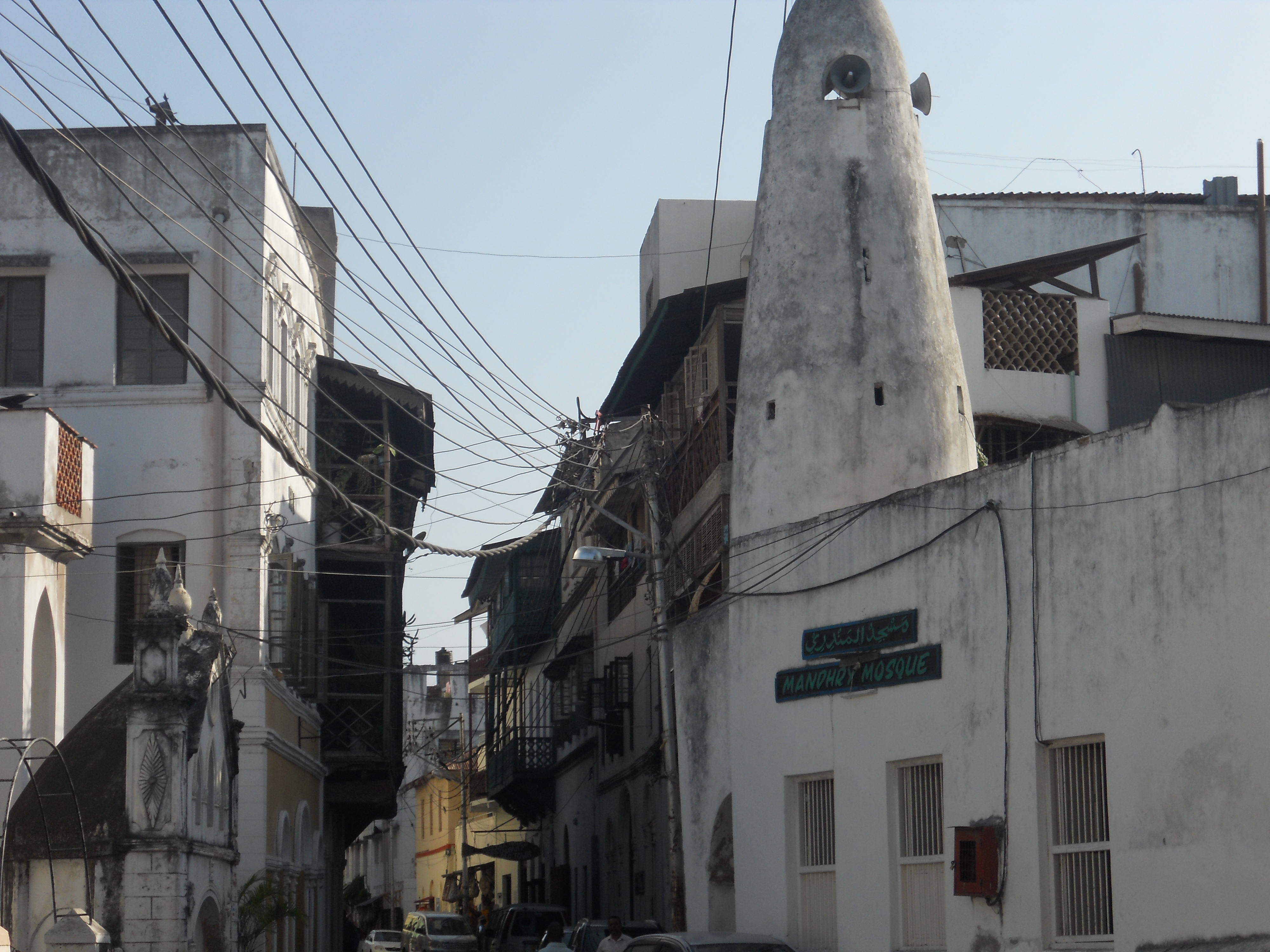 Street in the old town of Mombasa, Kenya